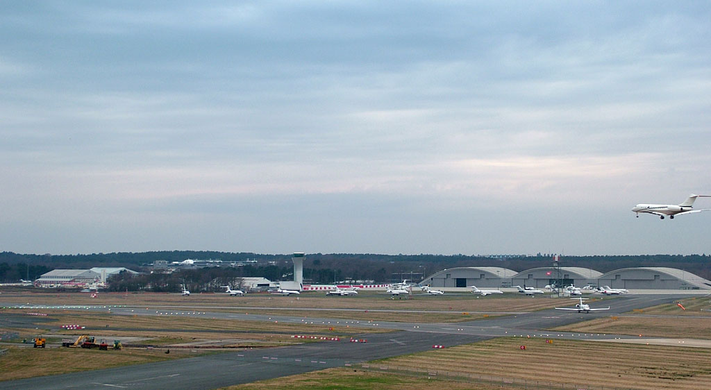 Panorama of Farnborough Airport, Hampshire View from 4th floor suite in 'The Aviator' hotel: Farnborough Airport control tower, hangars. A business jet is just landing.